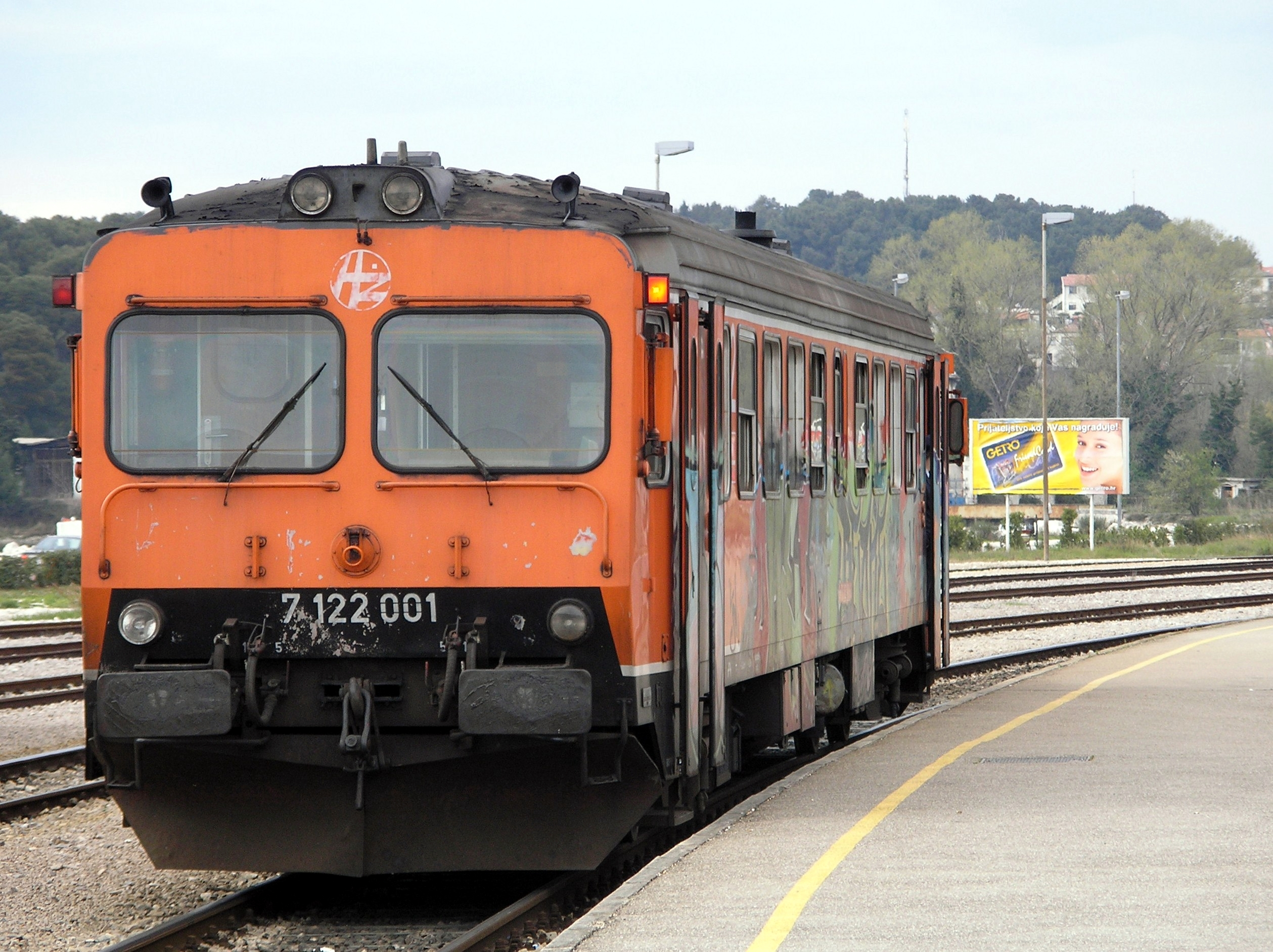 HŽ 7122 series train (Kalmar Verkstad Y1) in Pula, Croatia